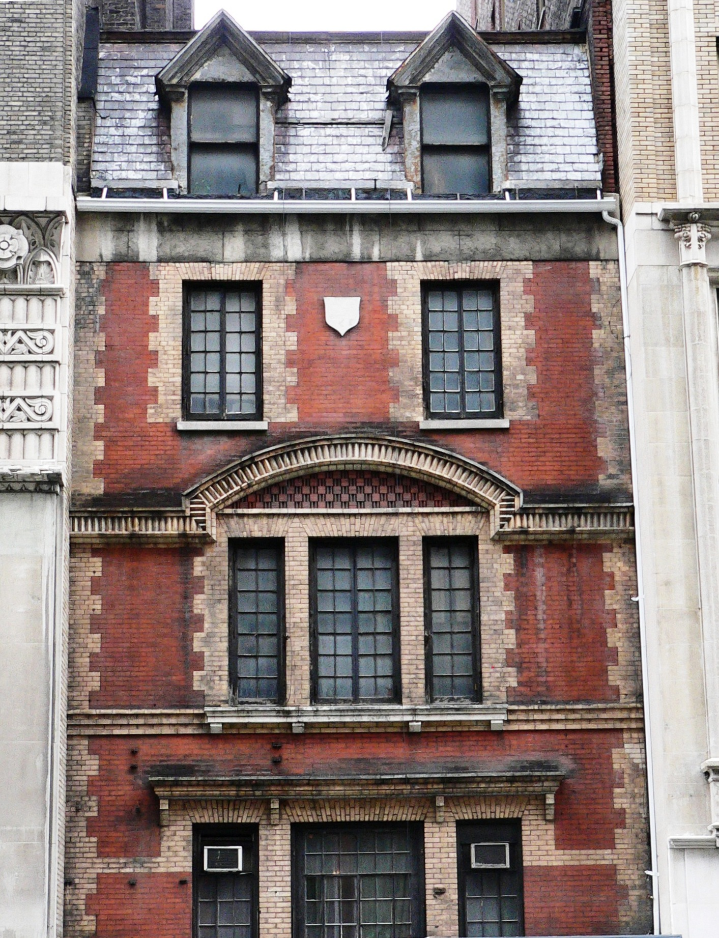 Original the floors above street level of the 1879 Delta Psi Chapter House at 29 E. 28th Street, New York City. The photo was taken from across the street